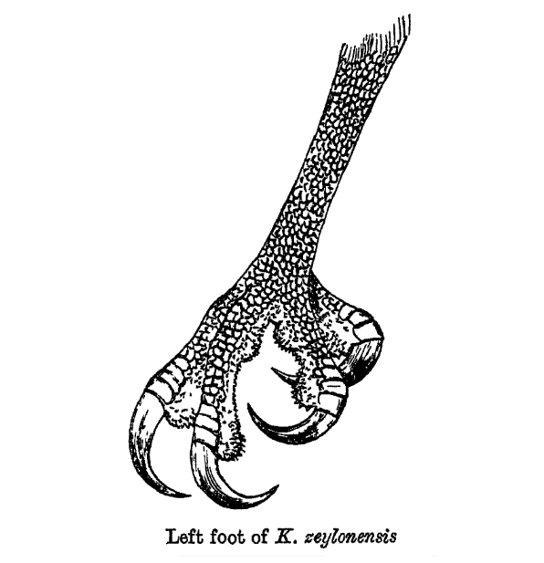 Left foot of Ketupa zeylonensis (Brown fish owl)